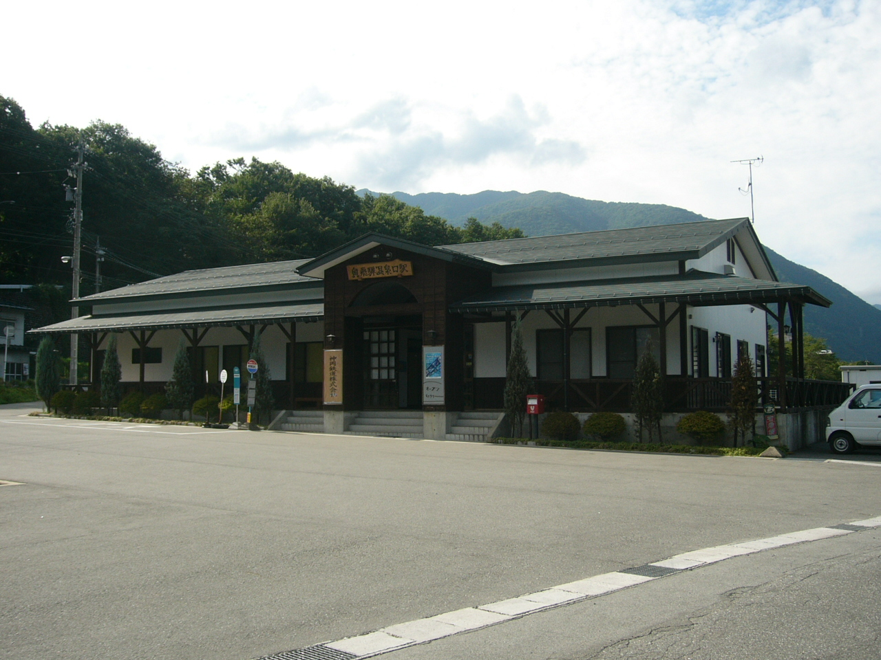 Okuhida-Onsenguchi Station